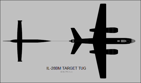 Plan-view silhouette of the Ilyushin Il-28BM target tug with towed target